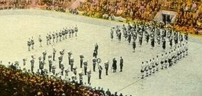 Postcard of the opening night ceremony of Maple Leaf Gardens (Toronto Maple Leafs vs. Chicago Black Hawks) in Toronto, Ontario, Canada. Postcard image is a reproduction of a photograph published in The Mail and Empire on November 11, 1931.